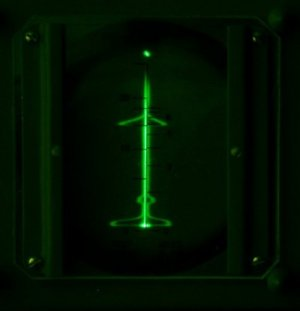 This image shows a simulated signal as displayed on the range scope of a restored AI Mk. IV radar, the first operational air-to-air radar system. Range increases towards the top, where the ground return would form a large triangular shape when used in operation. The large return at the bottom of the display is caused by the transmitter system, a small amount of this signal bleeds over to the receiver and overpowers any returns from aircraft. This limits the radar's minimum range to about 400 meters. Further up the display are two additional "blips", representing potential targets. By comparing the width of the blip on either side of the centreline, the operator can determine which direction the aircraft should turn to intercept the target. For instance, the larger upper blip is clearly longer on the left, so the aircraft should turn to the left to intercept. When the blip has the same size on both sides of the display, the aircraft is headed toward the target, within about 5 degrees. The system used two displays like this one, one displaying the "horizontal situation", as in this display, and a second one, normally located to the left, displaying the "vertical situation". The operator had to interpret both displays and give instructions to the pilot.